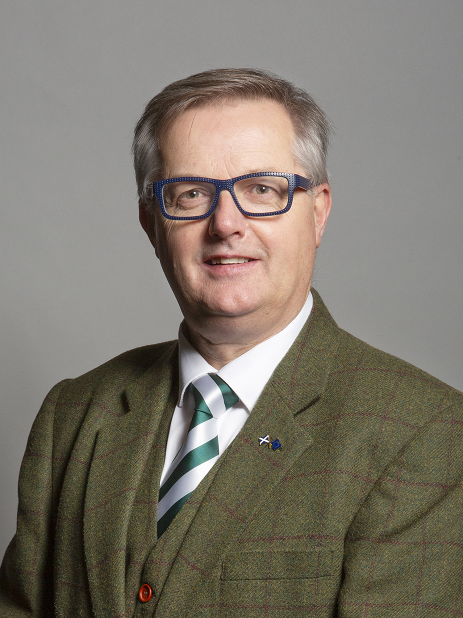 Official portrait of Brendan O'Hara MP 3×4 portrait of Brendan O'Hara